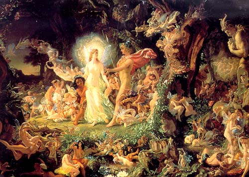 The Quarrel of Oberon and Titania